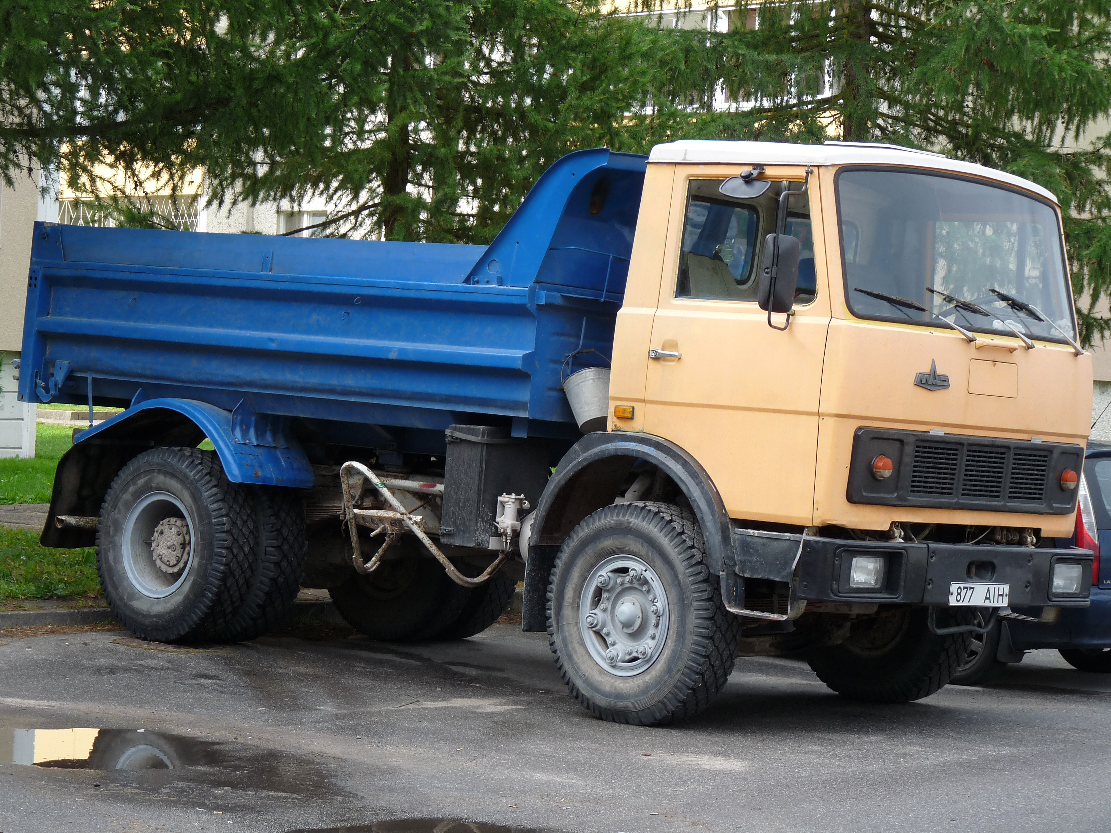 MAZ truck in Tallinn, Estonia